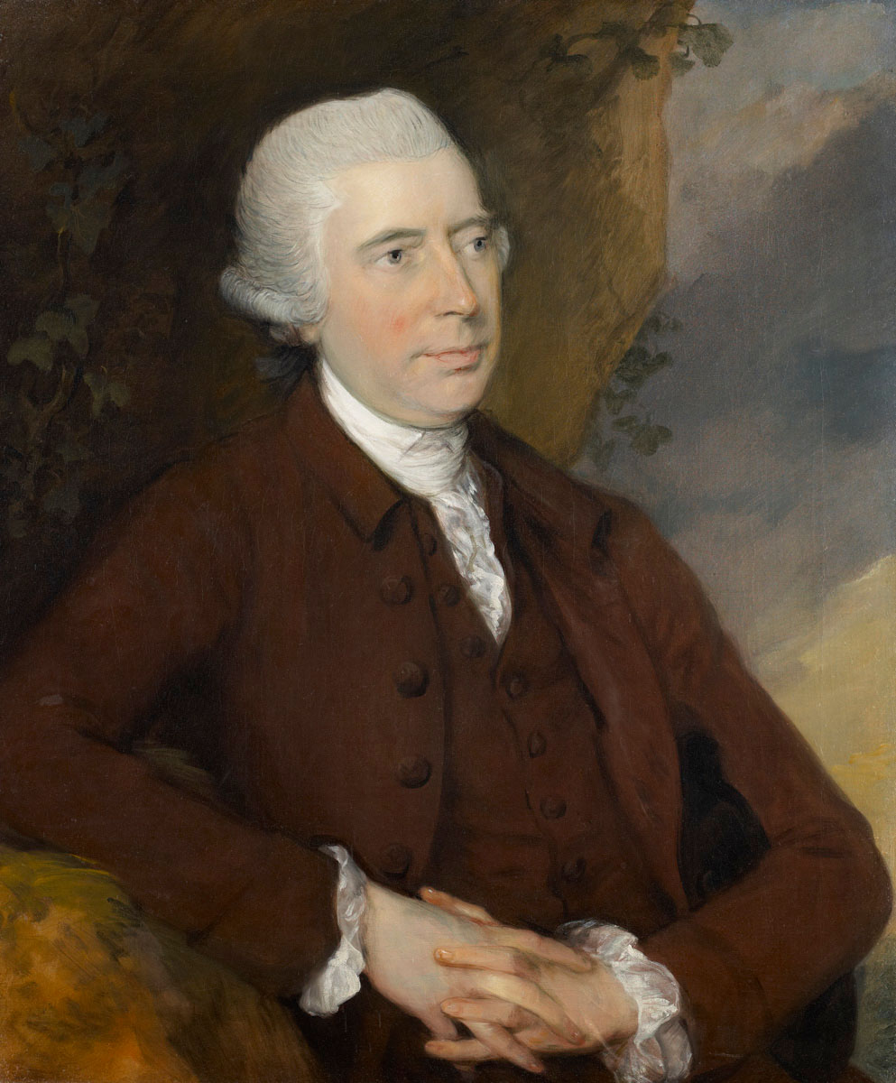 An oil on canvas portrait of Sir George Chad, Baronet of Thursford. There is a matching portrait of his wife, Lady Chad.